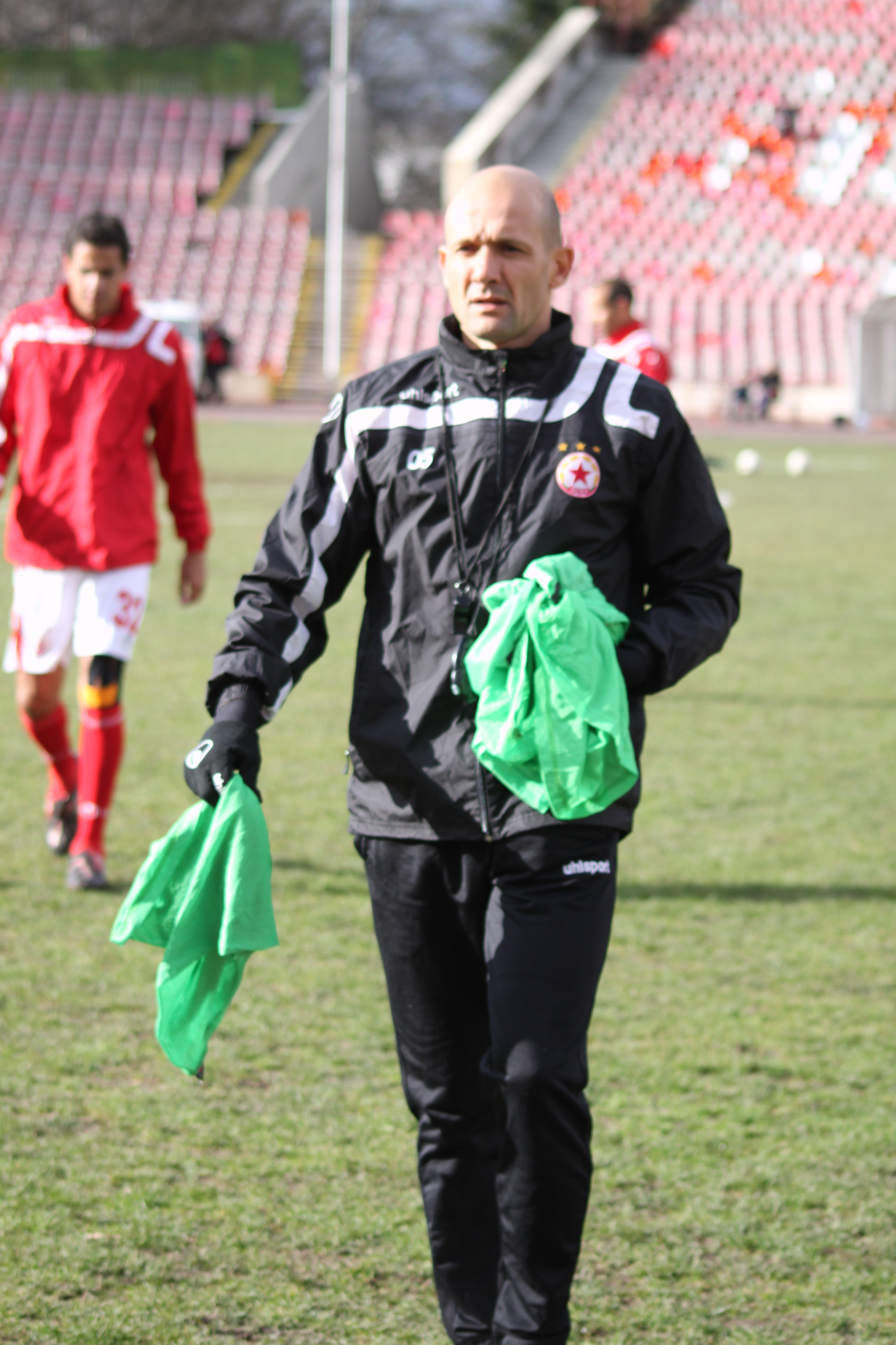 Milen Radukanov (Bulgarian: Милен Радуканов) (born 12 December 1972) is a former Bulgarian footballer, defender[1]. He is currently assistant manager at CSKA Sofia His first club is FC Bdin from the town of Vidin.